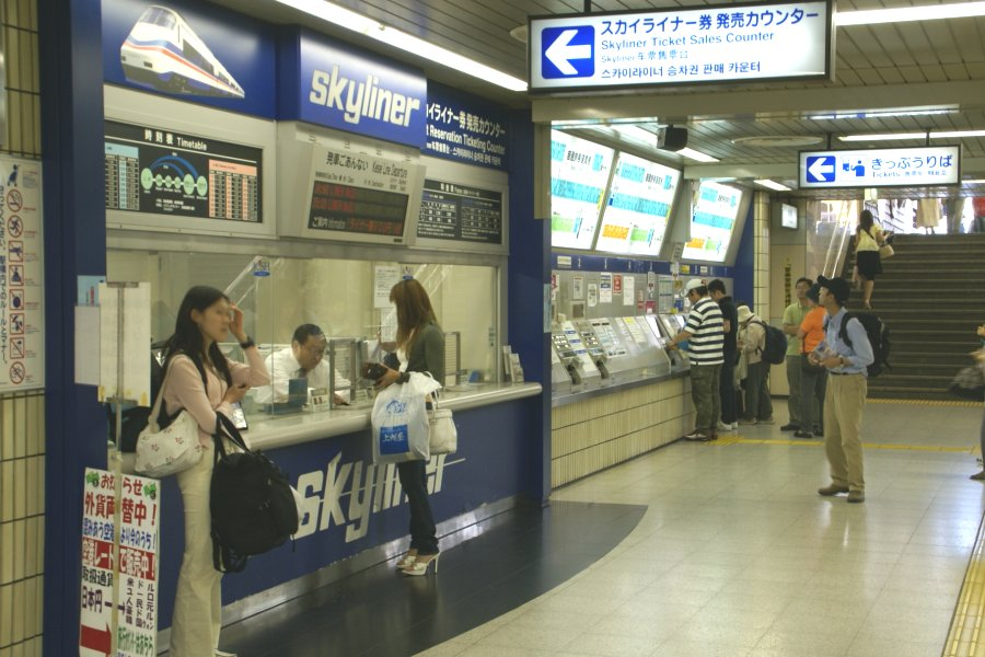 Keisei Ueno station concourse